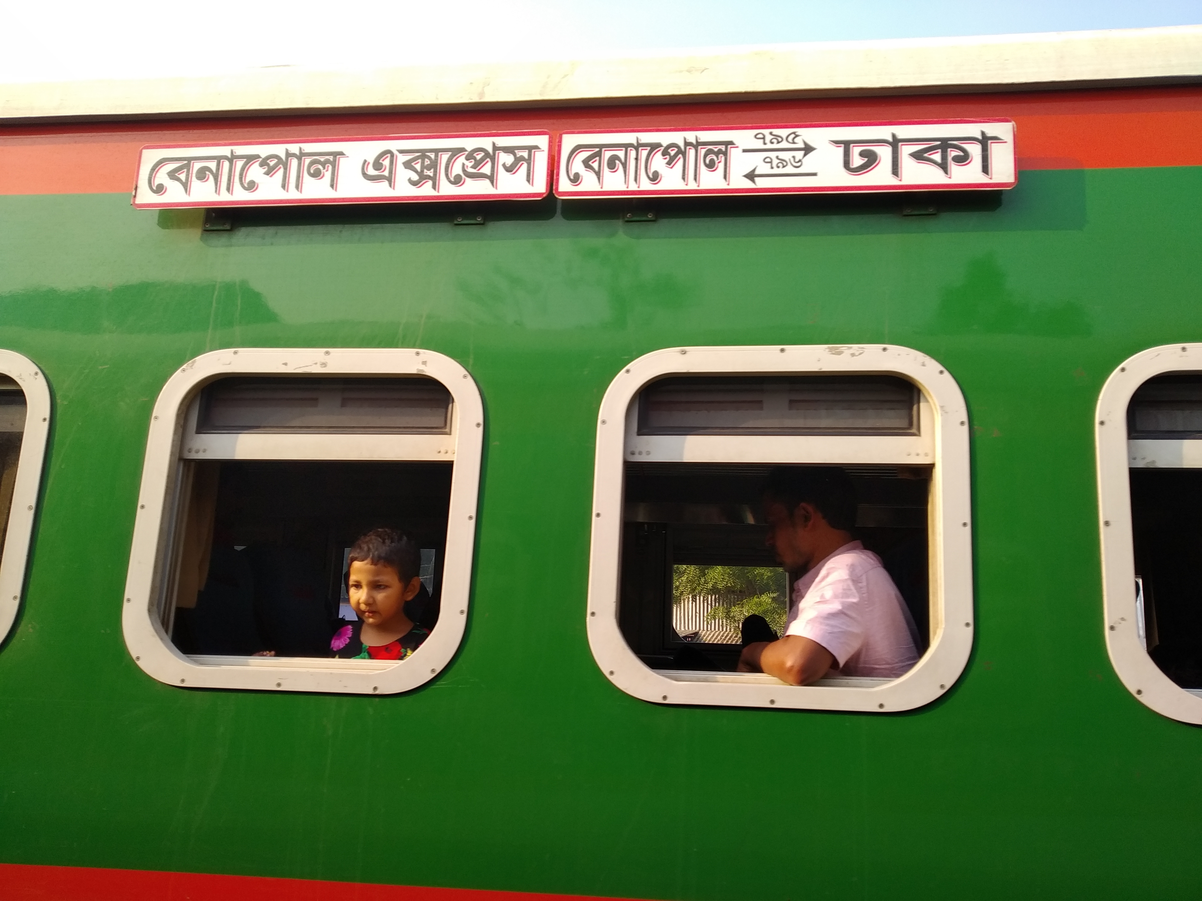 The sign board is showing benapole express